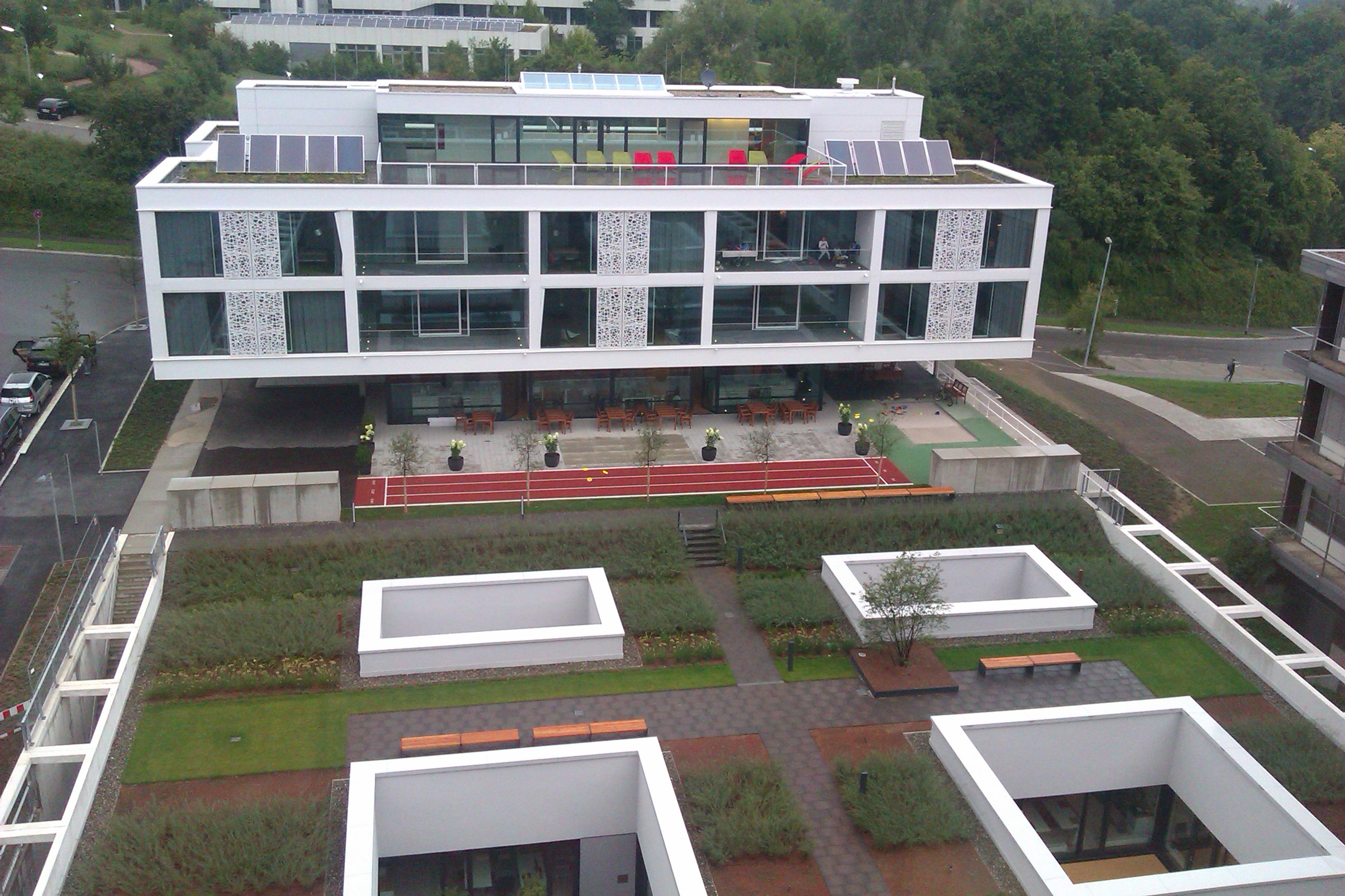 Ronald McDonald House in Tübingen, Germany